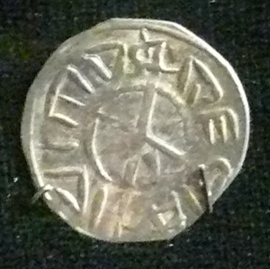 Denar of King Ladislaus I of Hungary (1077-95)